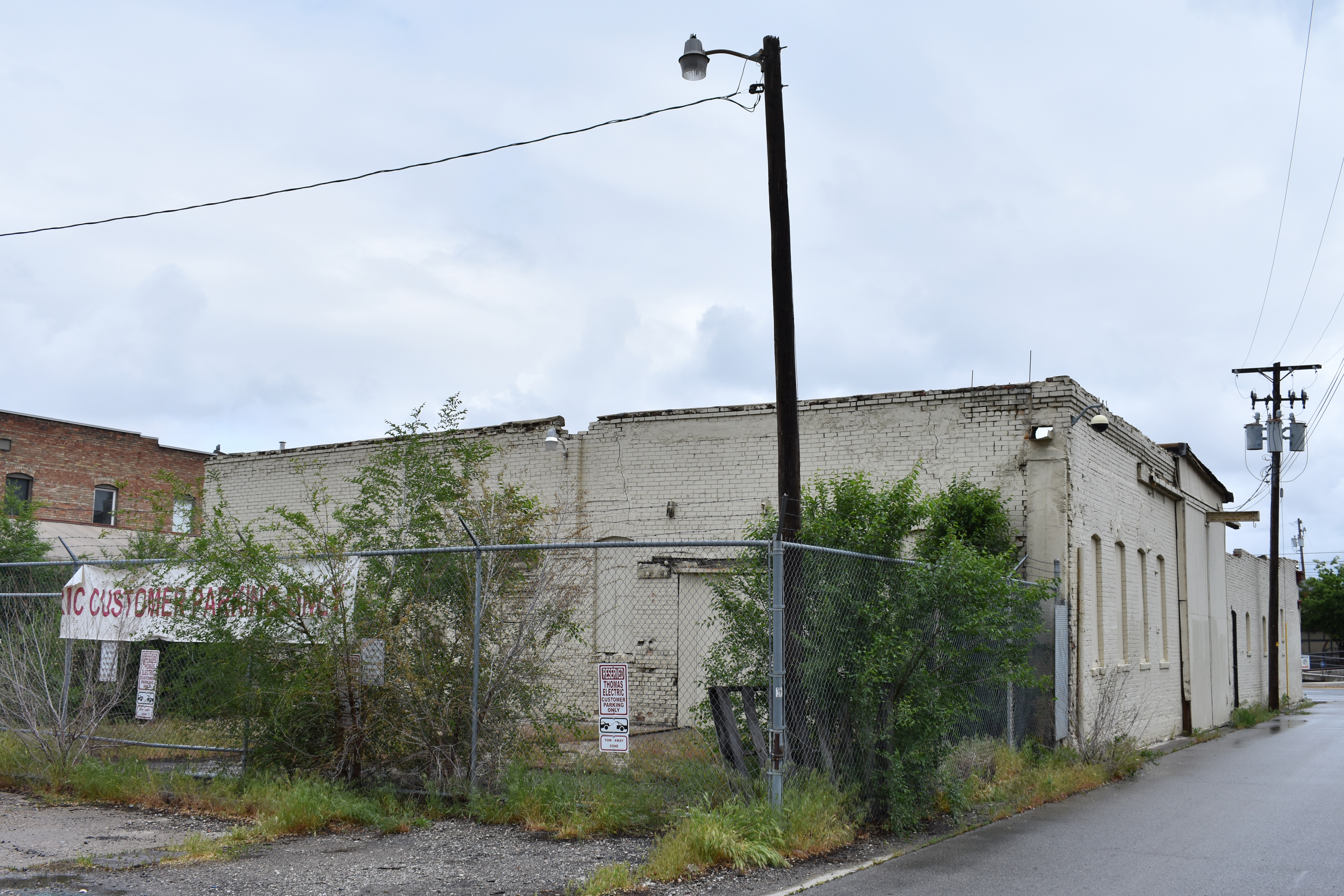 The side and rear view of the Building at Rear 537 W 200 South in Salt Lake City is shown. The building is listed on the National Register of Historic Places.